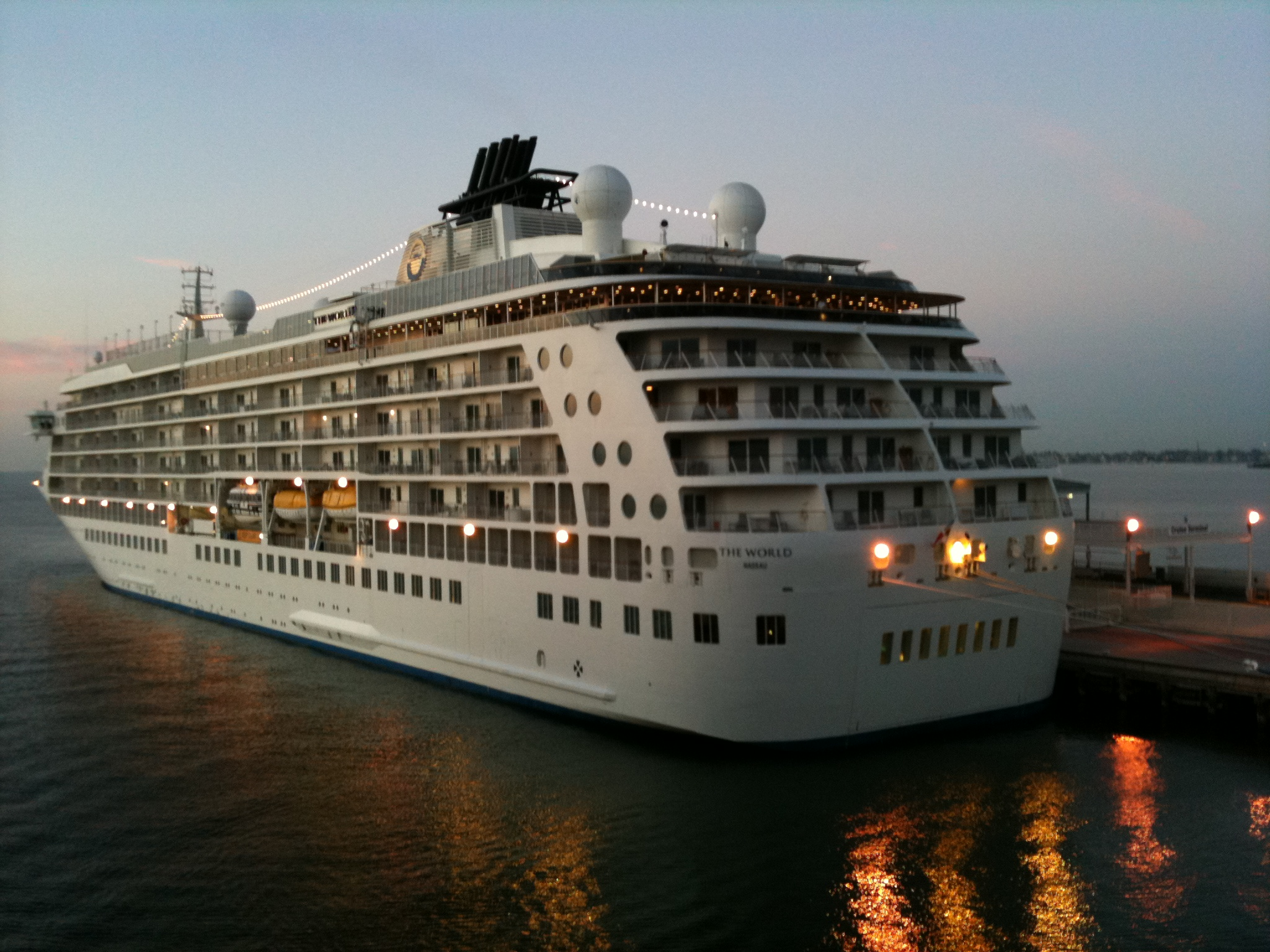 The World docked in Melbourne, Australia in early 2010